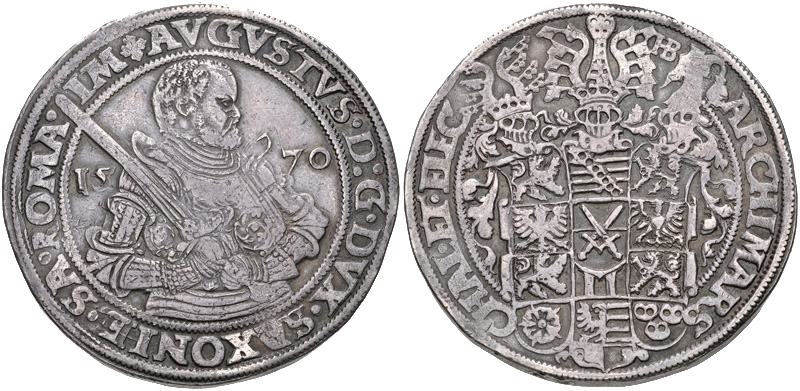 GERMANY, Sachsen-Albertinische Linie (Kurfürstentum). August. Elector, 1553-1586. AR Taler (40mm, 28.75 g, 5h). Dresden mint. Dated 1570. Armored half-length bust right, holding sword / Coat-of-arms surmounted by three helmets. Keilitz & Kahn 68; Schnee 725; Davenport 9798. VF, toned, removed from mount.